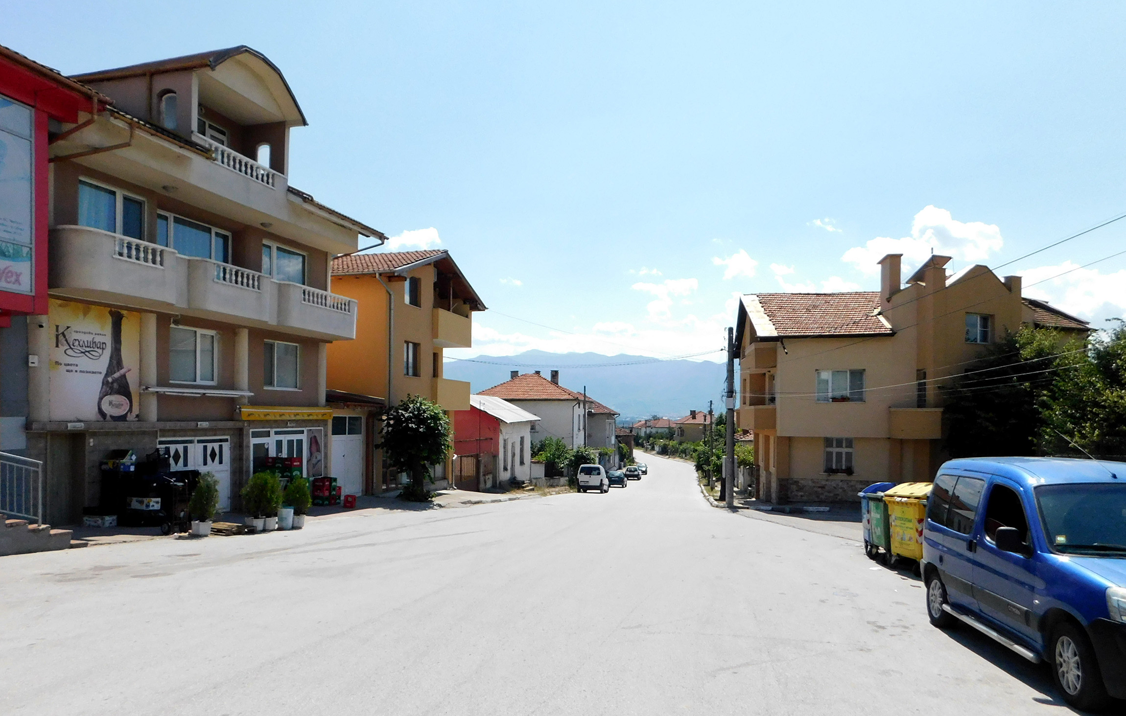 Garmen, Bulgaria